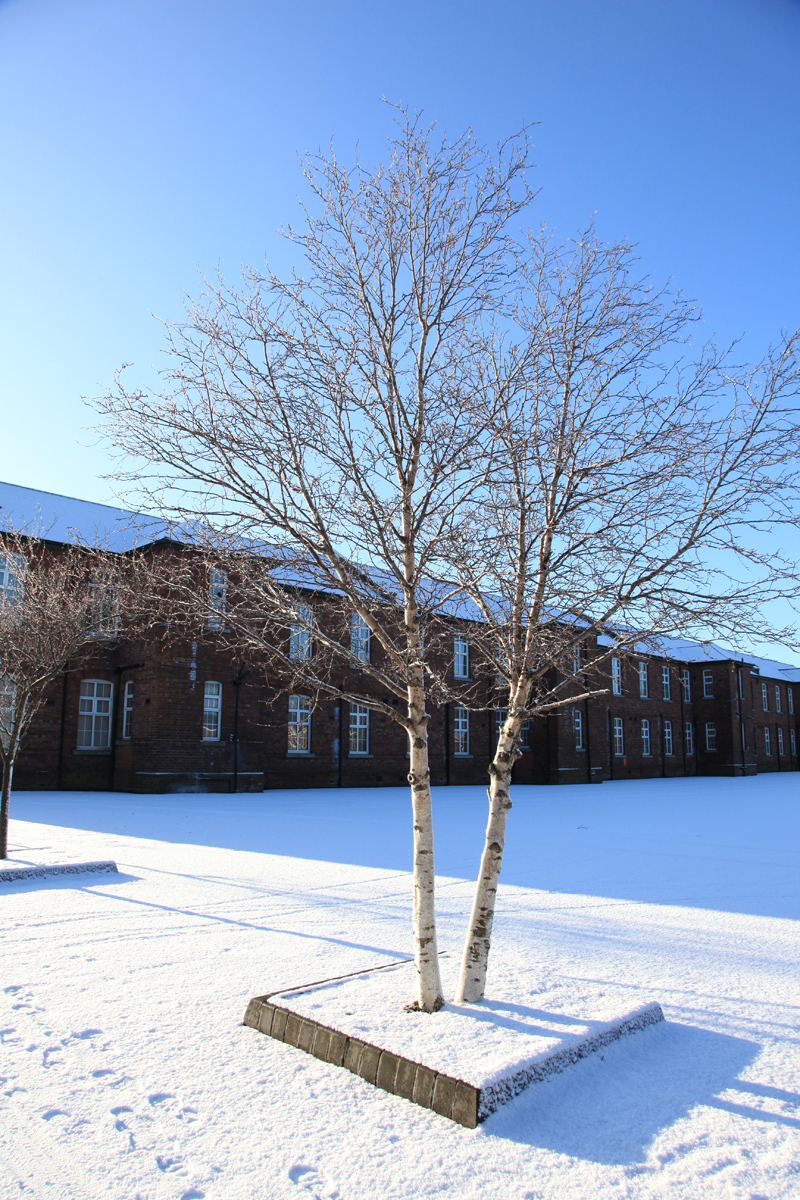 Curragh Snow (8)